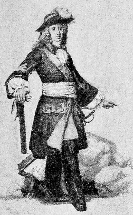 Nicolas de Catinat de La Fauconnerie